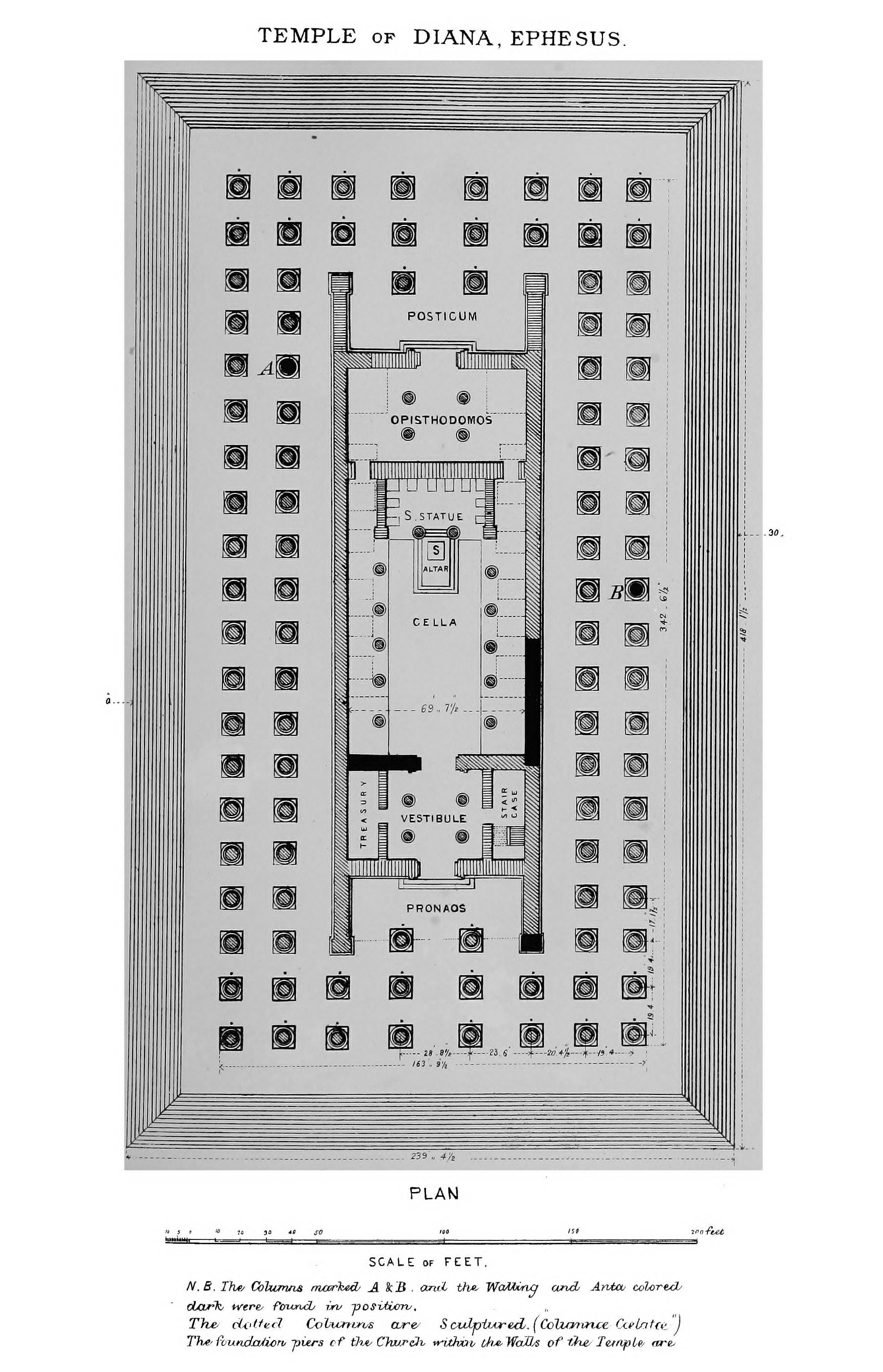 plan of the Artemis temple of Epheus by J T Wood, 1877